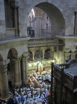 The Holy Sepulchre Church: Anastasis. Jerusalem (4th cent.). / Crkva Svetoga groba u Jeruzalemu: Anastasis (4. st.)